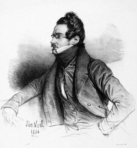 Belgian violinist and composer Joseph Ghys (1801-1848) by Alphonse-Léon Noël (1807-1884